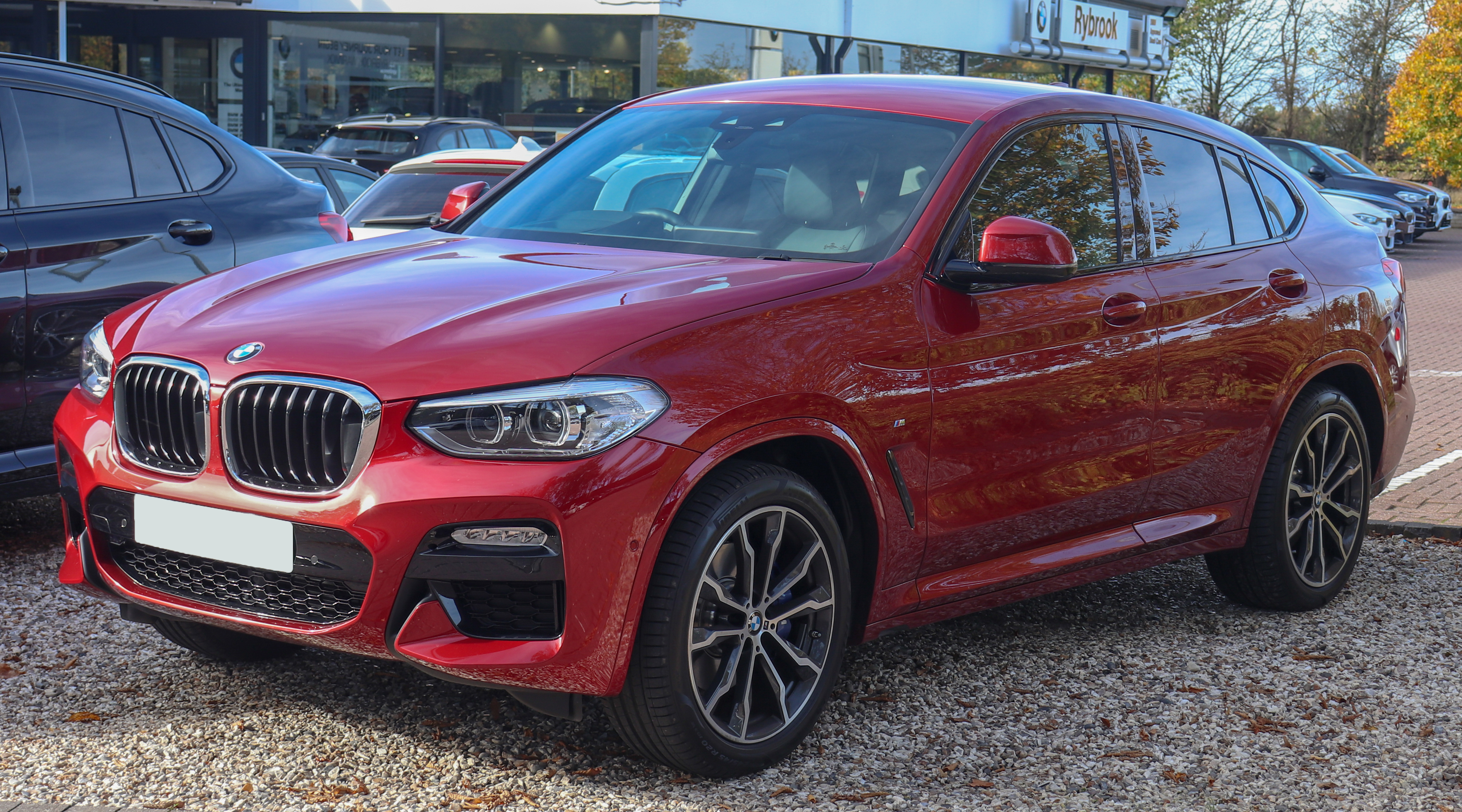 2018 BMW X4 xDrive20d M Sport Automatic 2.0 Front Taken in Leamington Spa